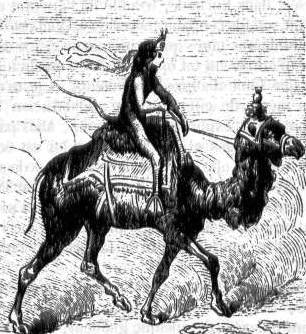 Depiction of the demon Paimon, or Paymon, from Collin de Plancy's Dictionnaire Infernal, 1863 edition. Paimon is a king of hell who governs 200 legions, half of them from the Angelic Order, and half from the Order of Powers. He appears as a man with a woman’s face riding a dromedary, and crowned with a headdress made with precious stones. If Paymon is evoked by sacrifice or libation, he may appear accompanied by Bebal and Abalam.